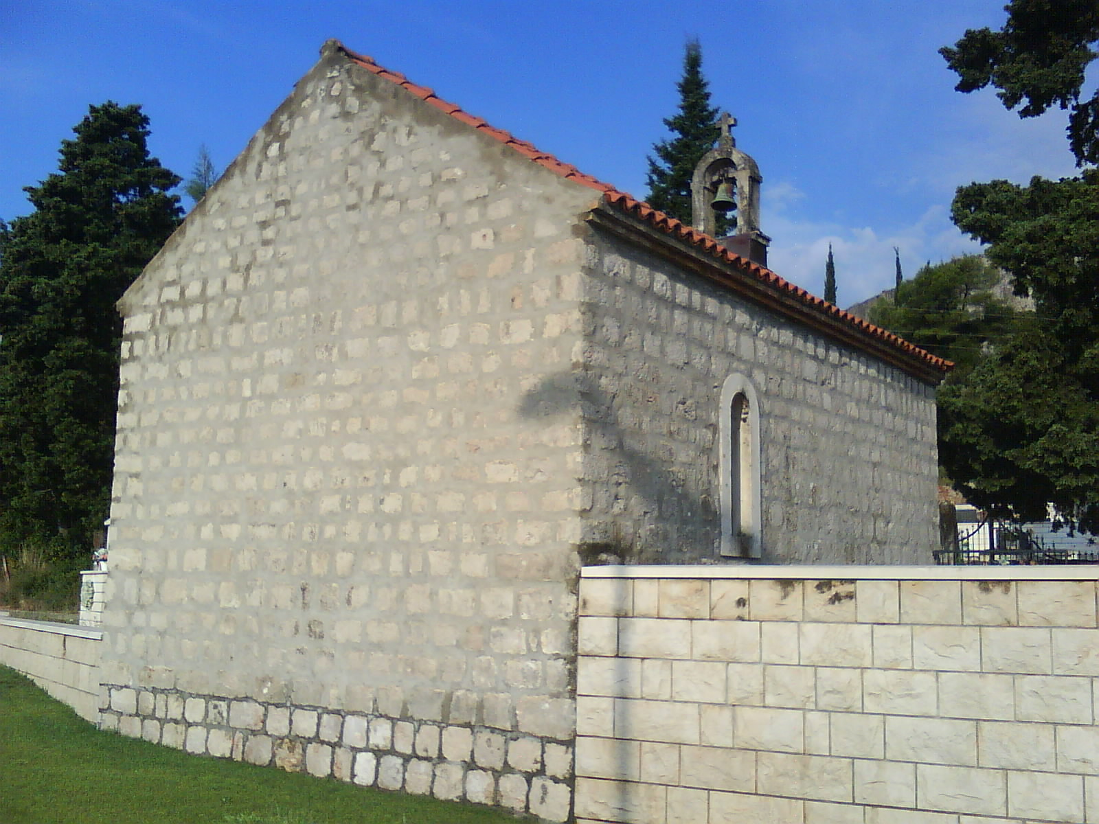 Mali Ston